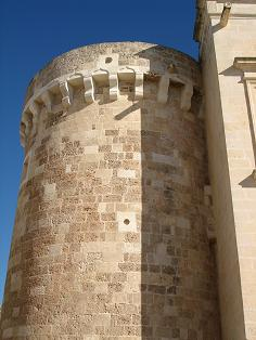 Cilindric tower of Martano castle, Province of Lecce - Apulia, Italy